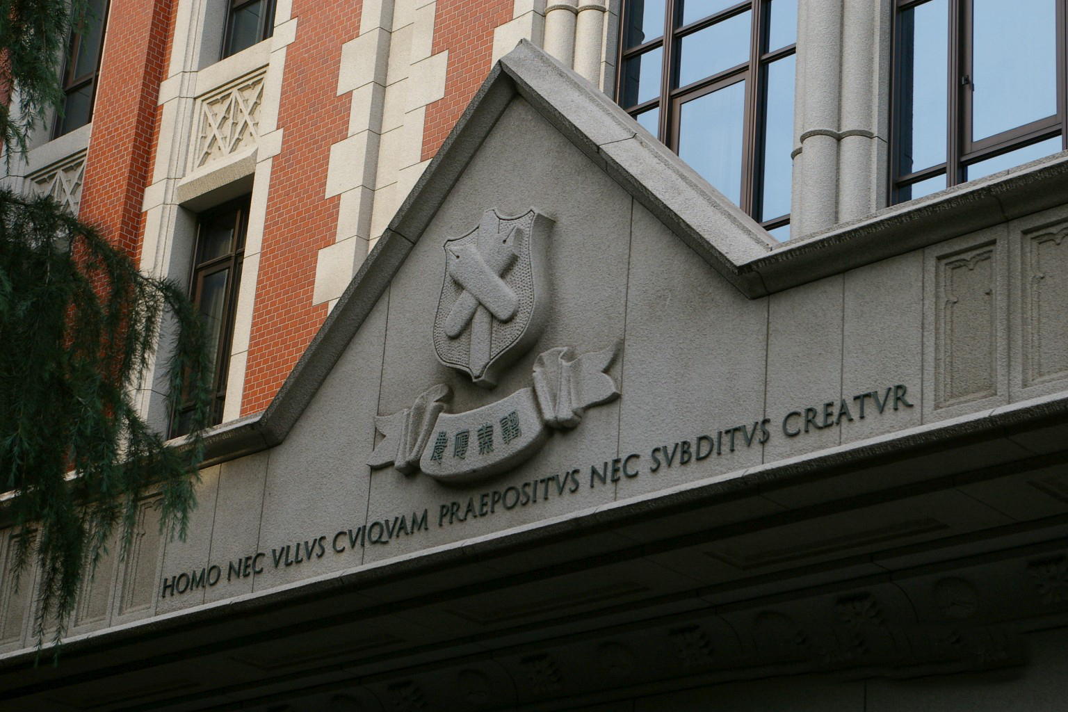 Logo and text "Homo nec ullus cuiquam praepositus nec subditus creatur" (a Latin translation of a quotation from university founder Fukuzawa Yukichi) engraved on the facade of the Eastern Hall at Keio University's Mita campus. Taken in May 2009 in Tokyo.